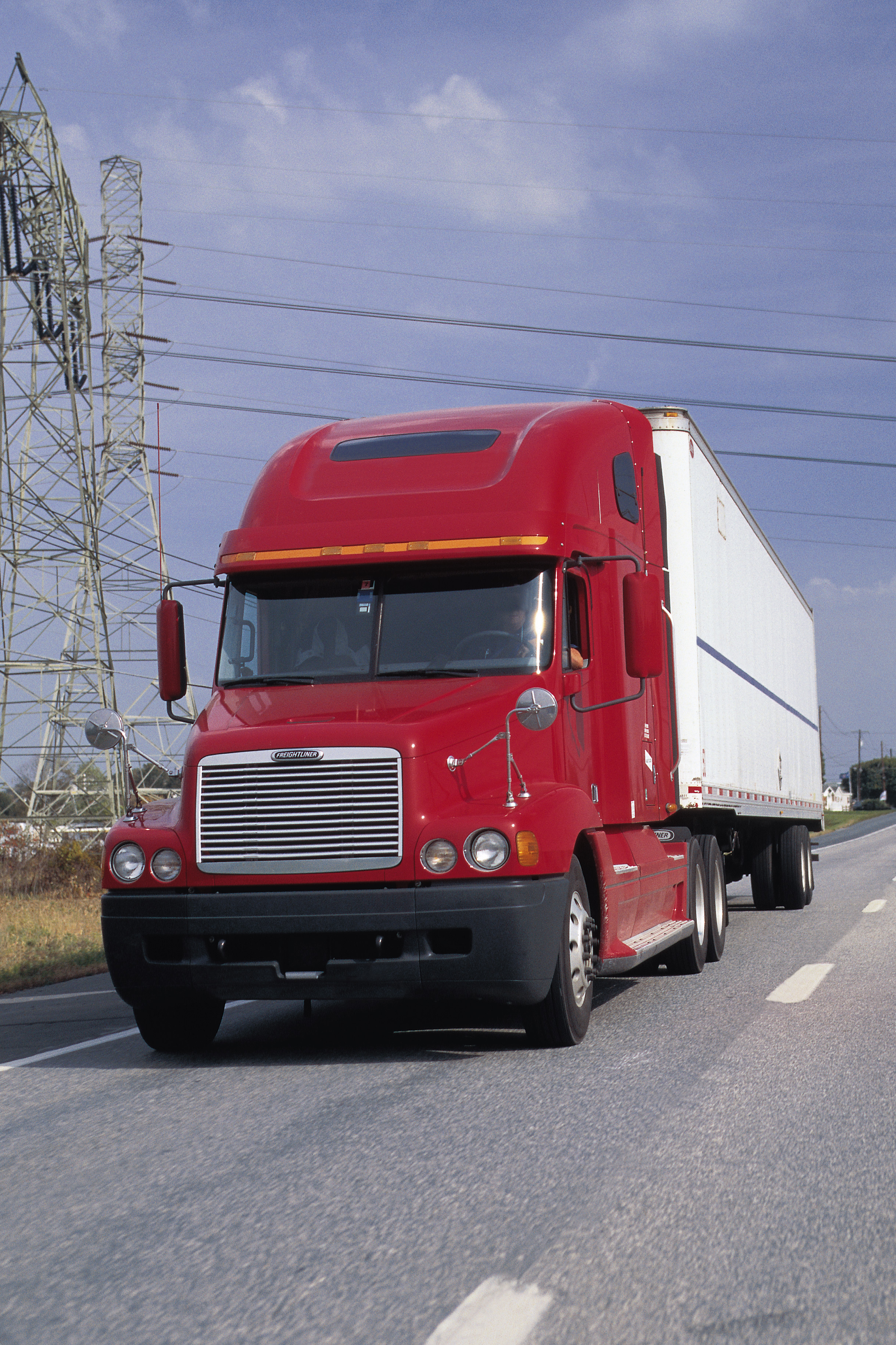 A red Freightliner Century tractor with trailer.